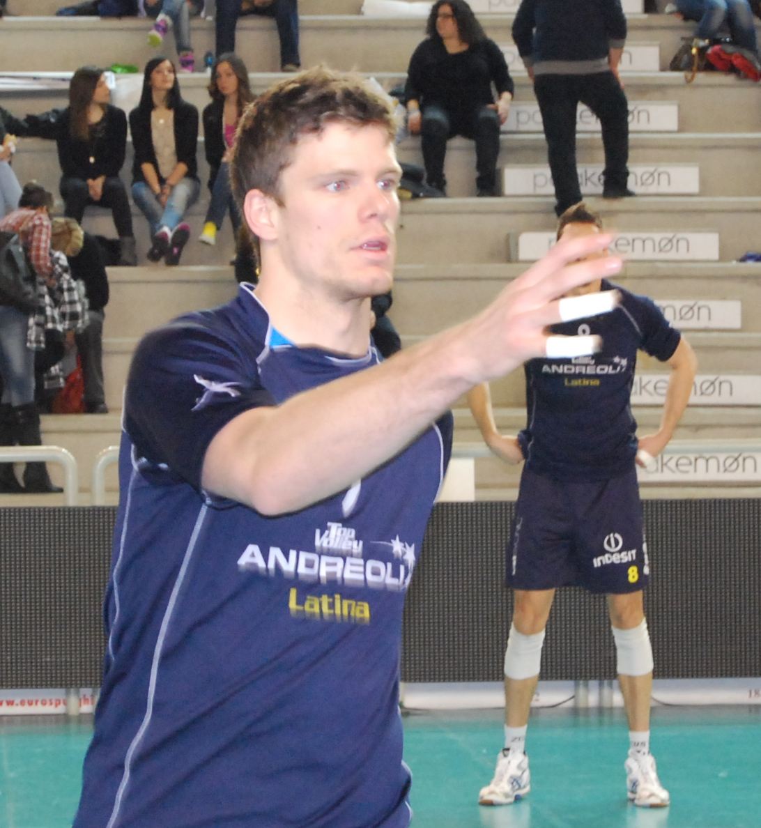 Belgian volleyballer Pieter Verhees before the game Altotevere Volley - Top Latina, 2013 March 17th.